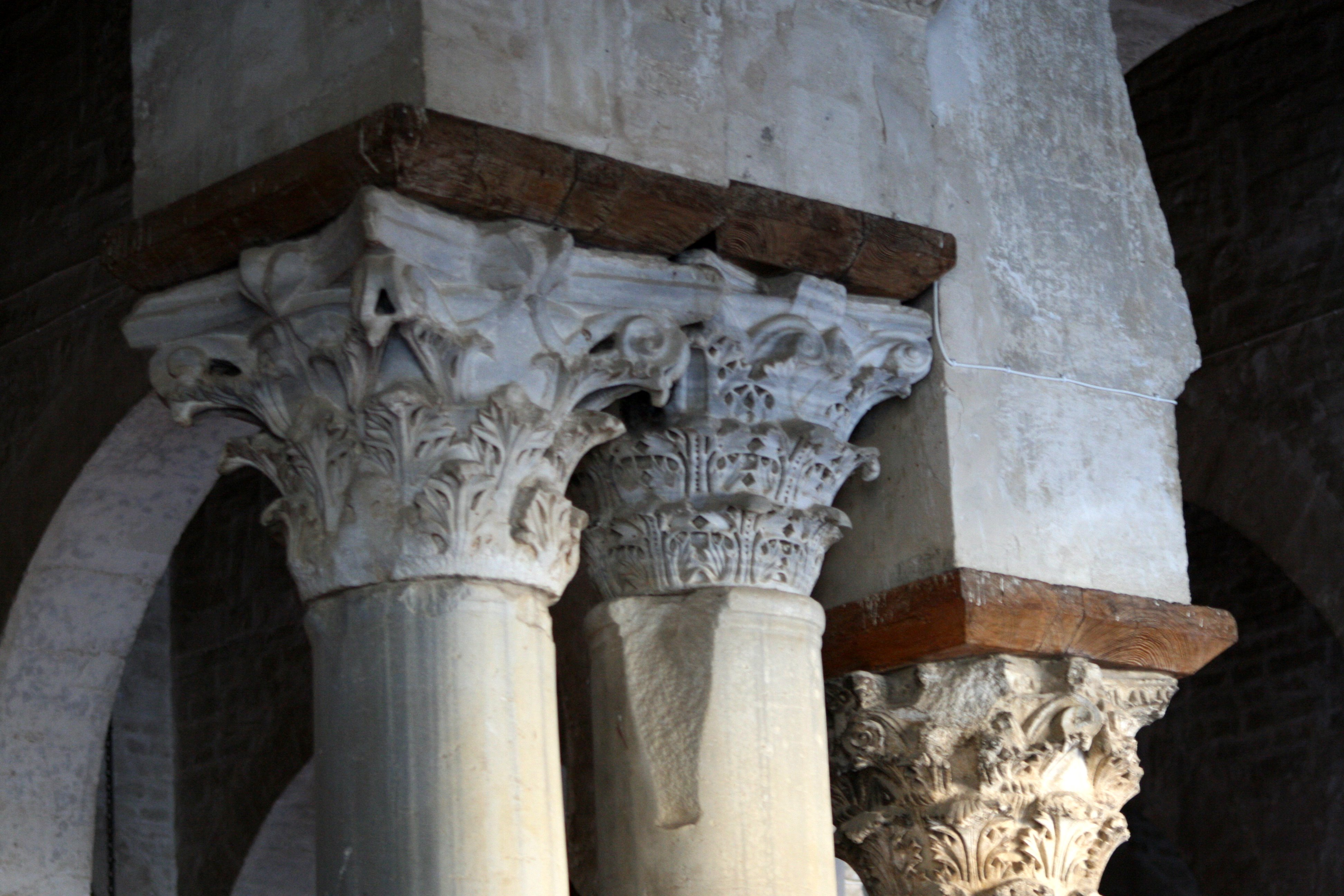 Ancient capitals in the prayer hall of the Great Mosque of Kairouan, in Tunisia.